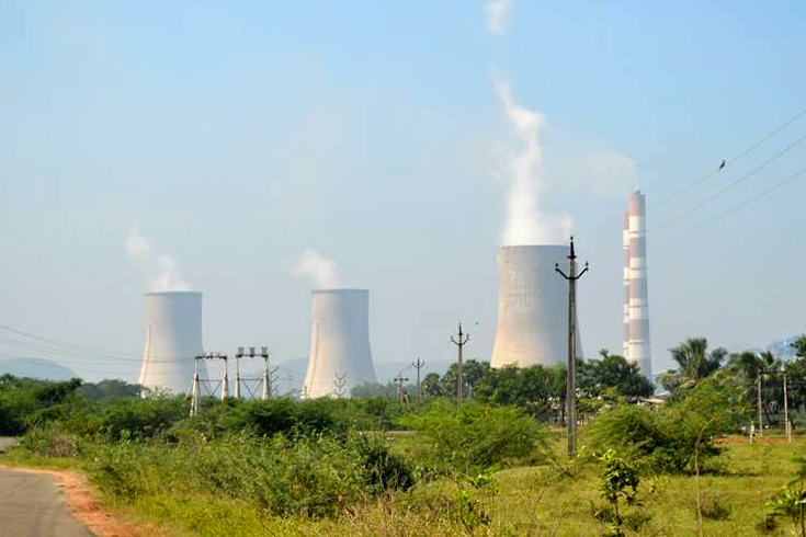 View of NTPC Simhadri Super thermal power plant, Parawada, Visakhapatnam